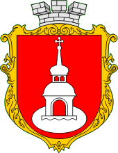 Coat of Arms of Ukrainian town of Pereiaslav-Khmelnytskyi (Pereiaslav)